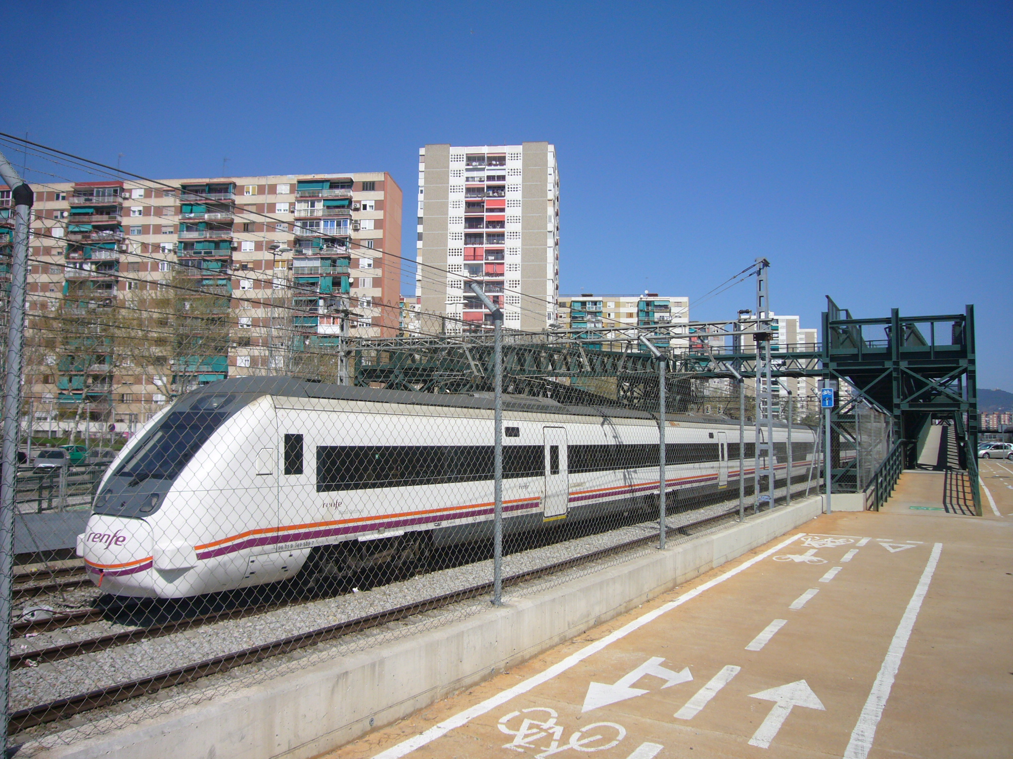 Renfe train at the Bellvitge-Gornal station